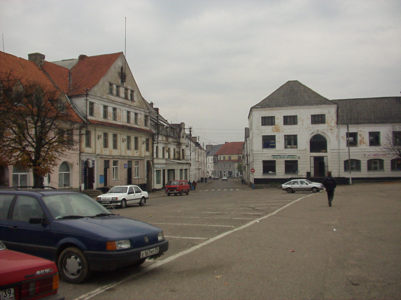 Ozersk town in Kaliningrad oblast in Russia, central square